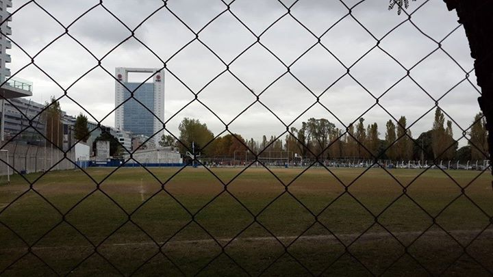 Colegio Nacional de Buenos Aires - Campo de deportes - from the outside. The buuilding at the back is the Madero Office from the bank ICBC Argentina in Puerto Madero